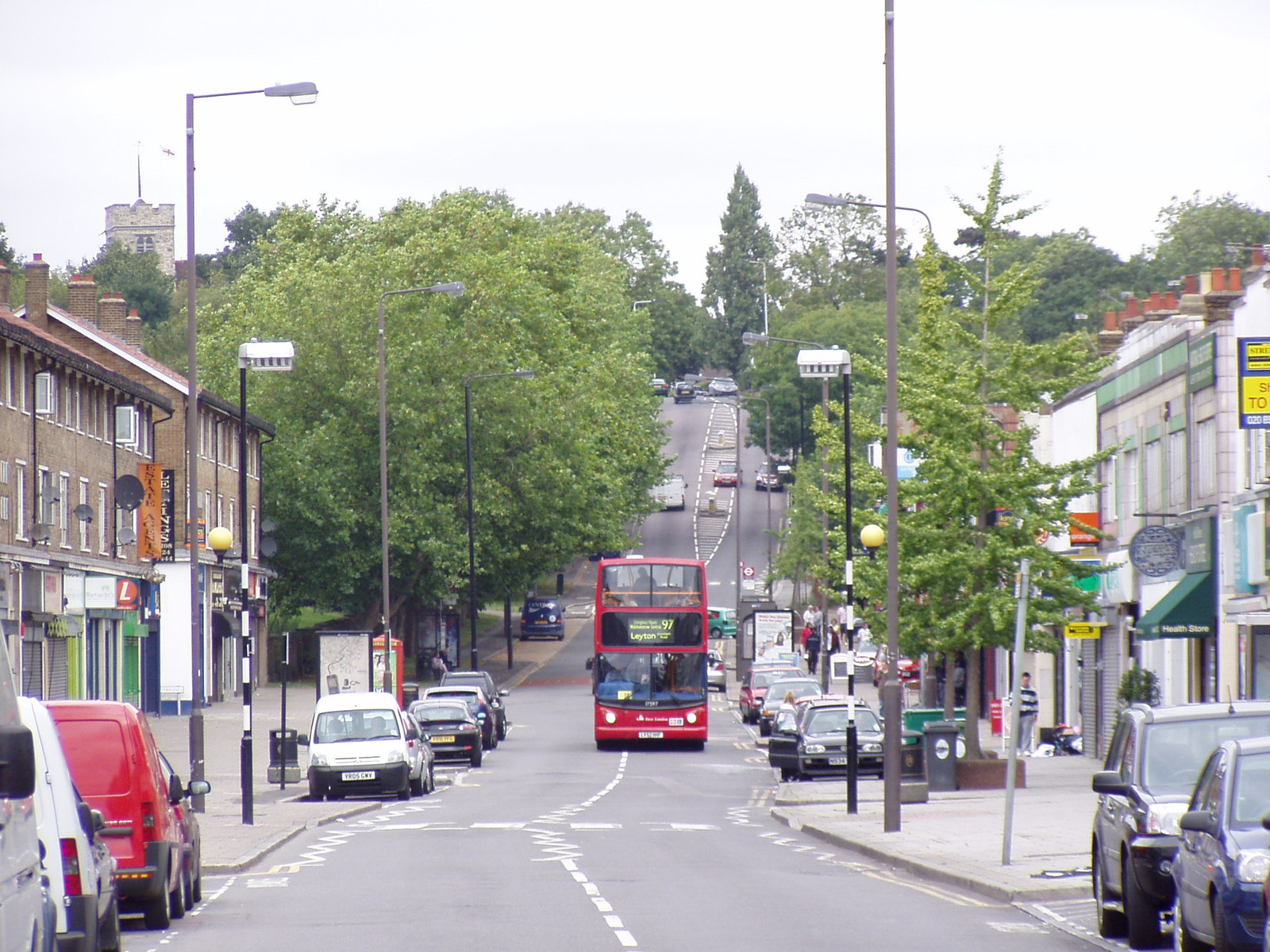 Chingford Mount (Old Church Road) Chingford, Data from Geograph: Description: A view looking north up Chingford Mount (Old Church Road). At the top of the picture on the left can be seen the tower of All Saints Church known locally as the "Old Church" from which the road gets its name. See photo... more ICBM: 51.618443013915, -0.01747439224596 Location: (about 2 km from) near to Chingford, Waltham Forest, Great Britain.